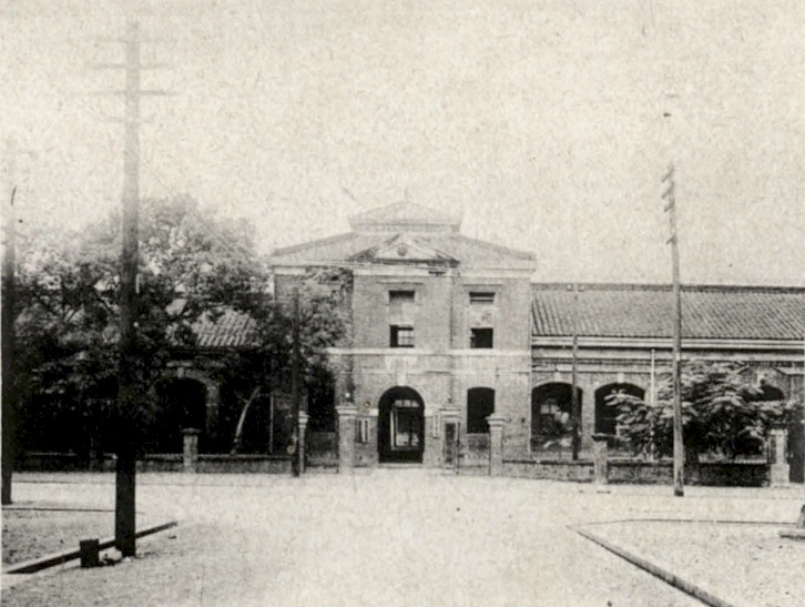 南投郡役所